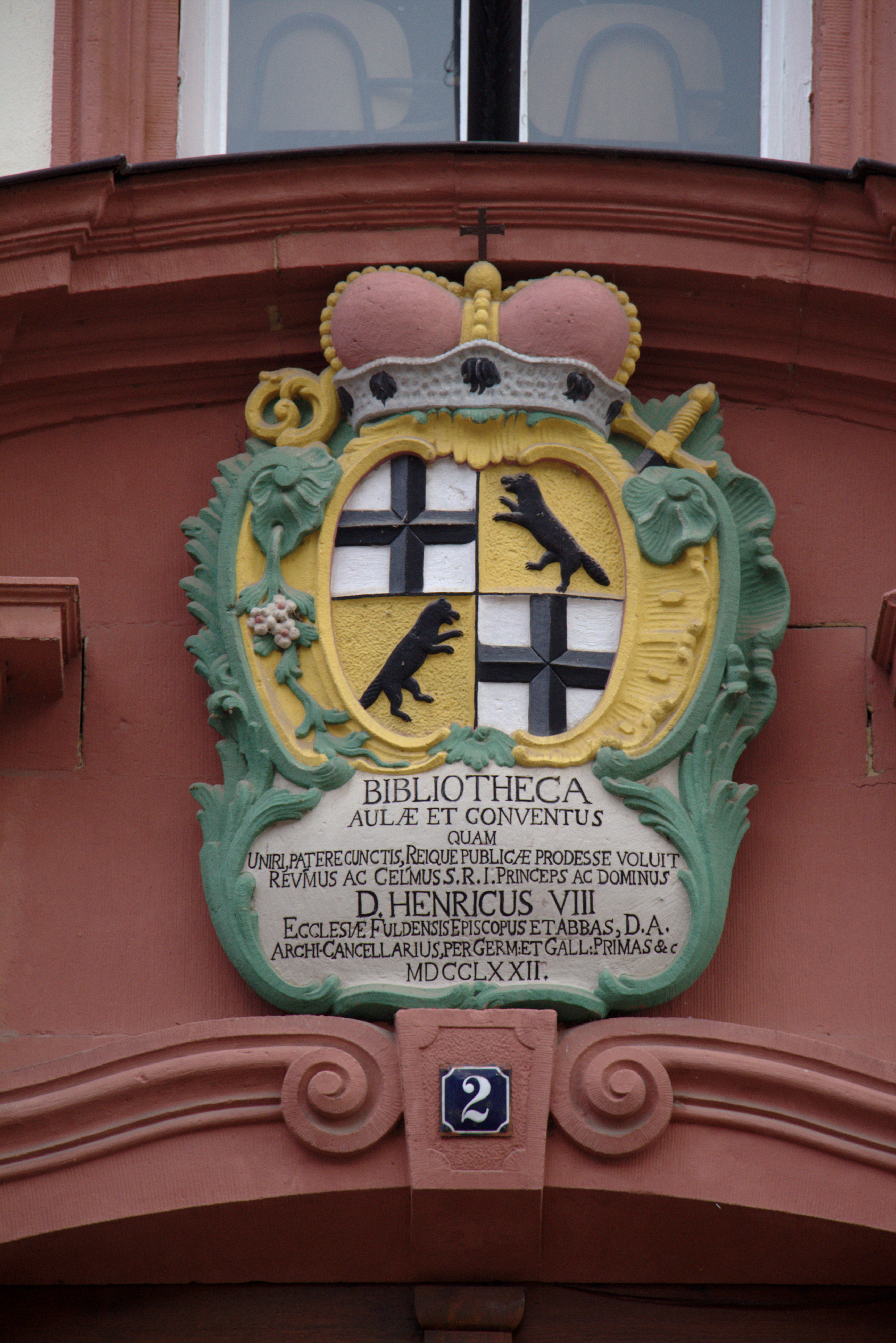 Coats of arms of bishops of the Roman Catholic Diocese of Fulda, Fulda, Hesse, Germany